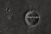 Manners lunar crater as seen from Earth with satellite craters labeled